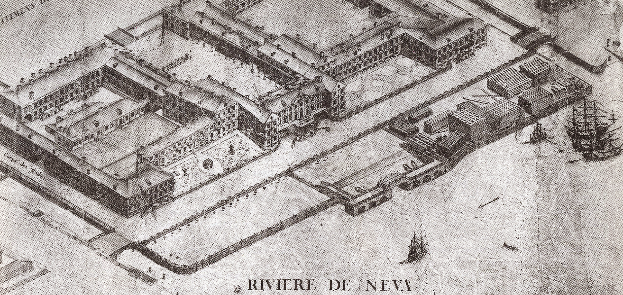 Cadet Corps. 1766-1767. Fragment Saint-Hilaire's axonometric